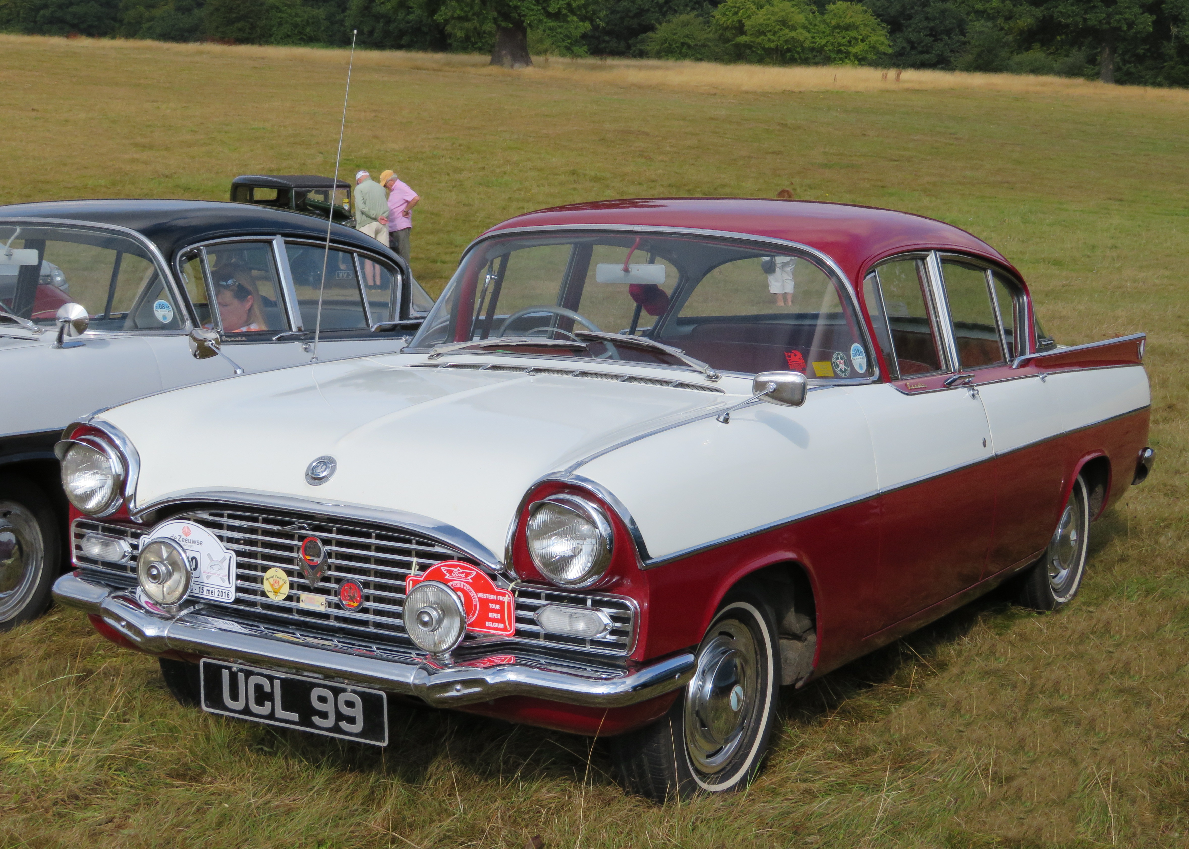 Vauxhall Cresta PA with sibling